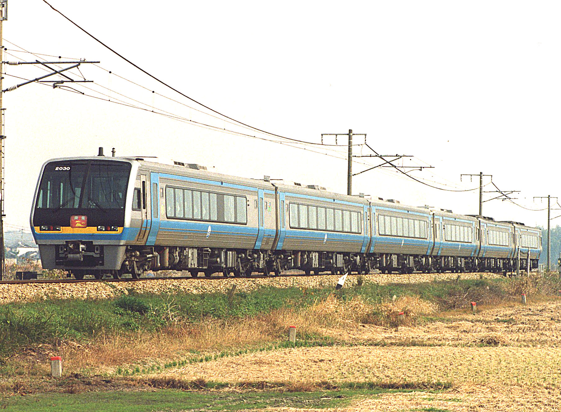 Tosa Kuroshio Railway 2000 series DMU for the limited express Nanpu